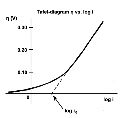 Tafel plot. Overpotential η as a function of 10log i.